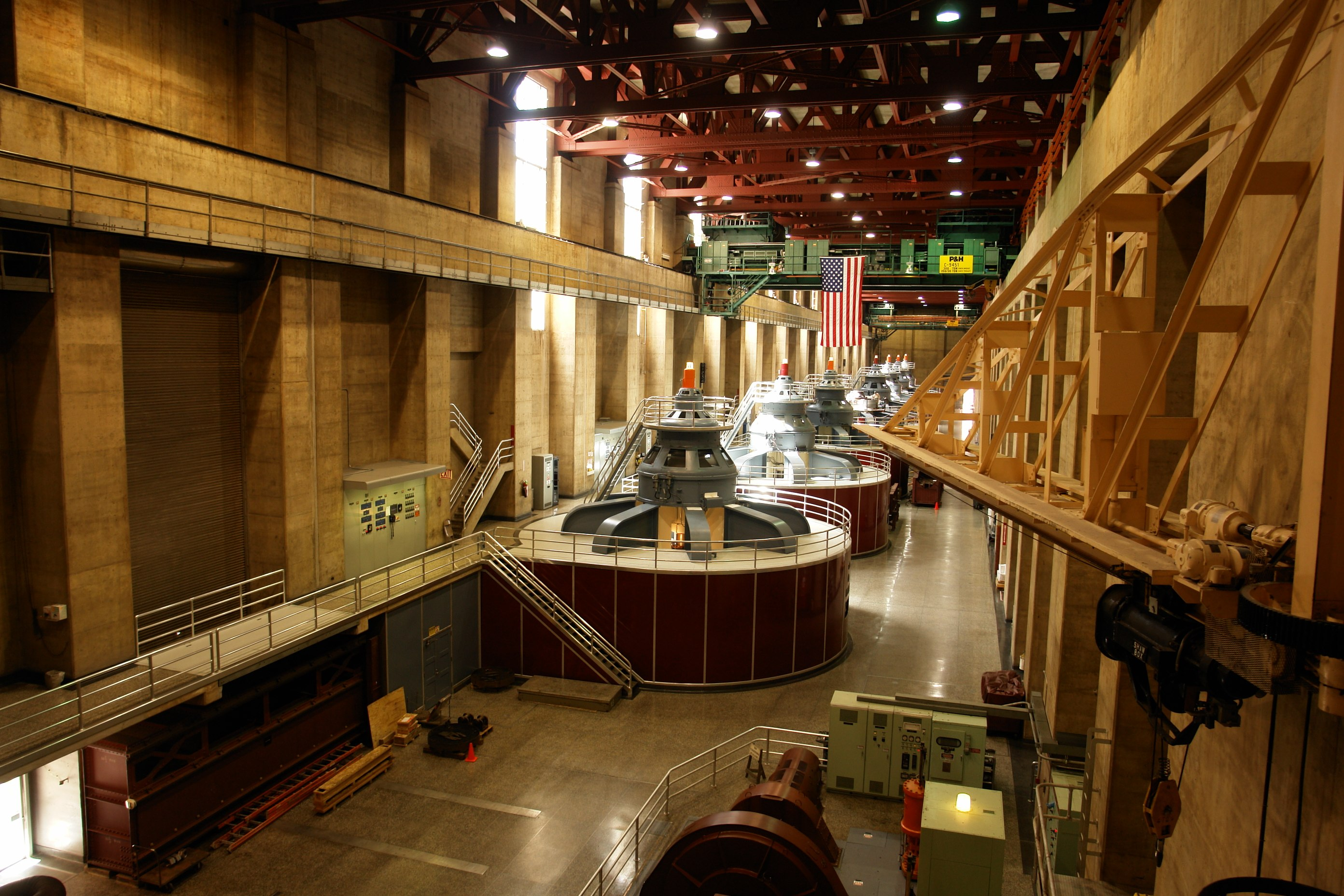 Generators Inside Hoover Dam, The Tour